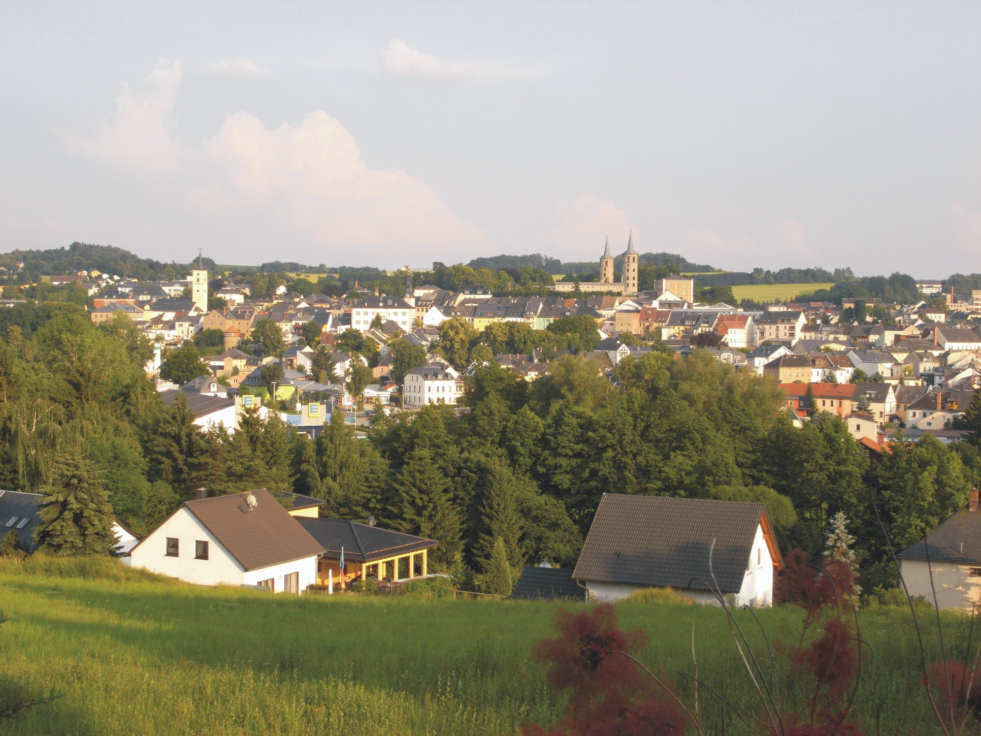 View at Schleiz (Thuringia, Germany)